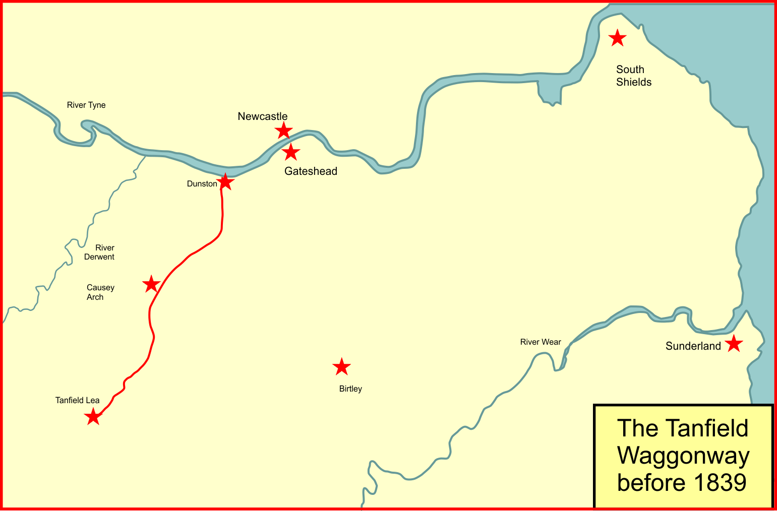 System map of the Tanfield Waggonway, County Durham, England, before 1839